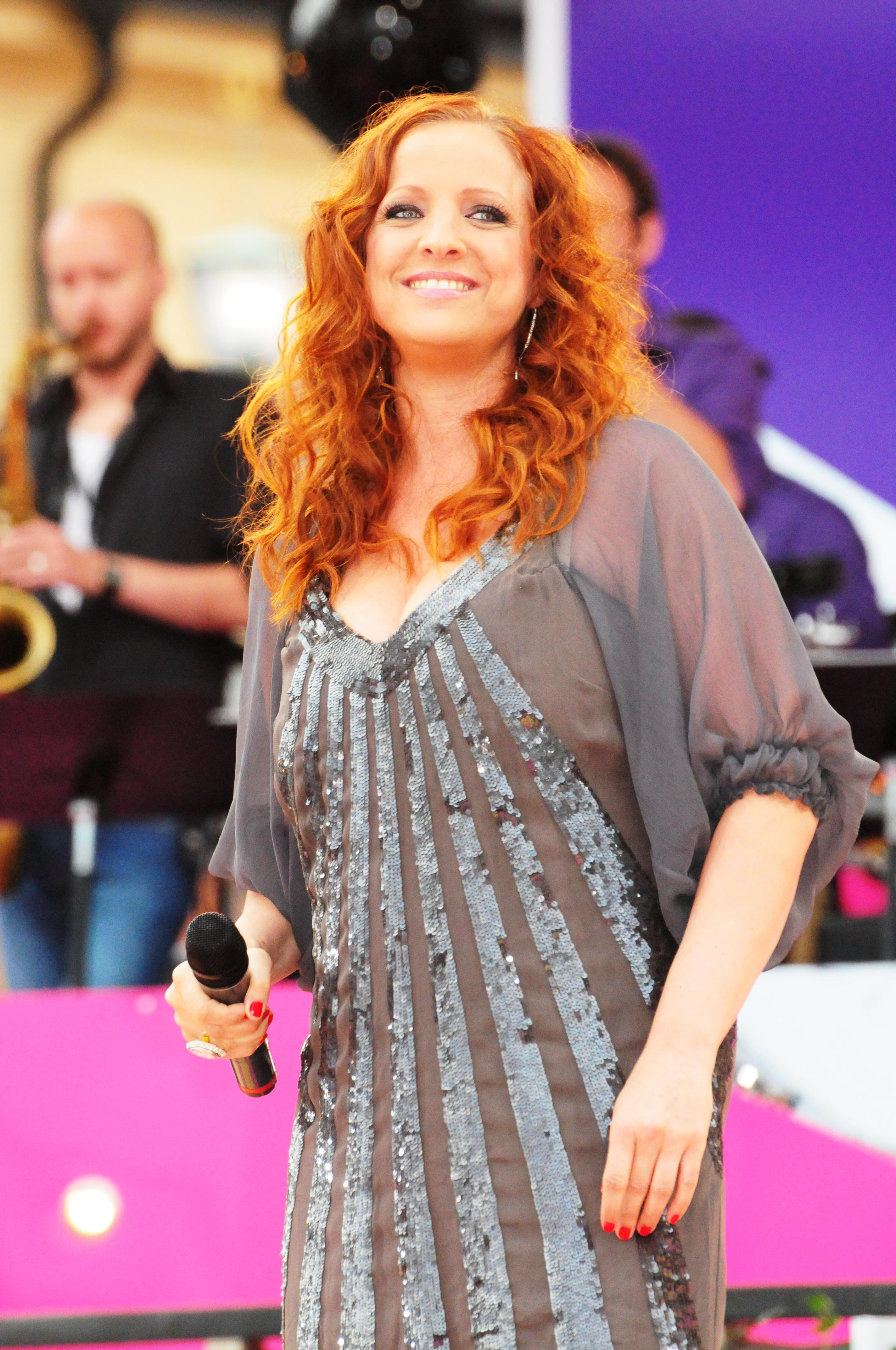 Shirley Clamp at Sommarkrysset